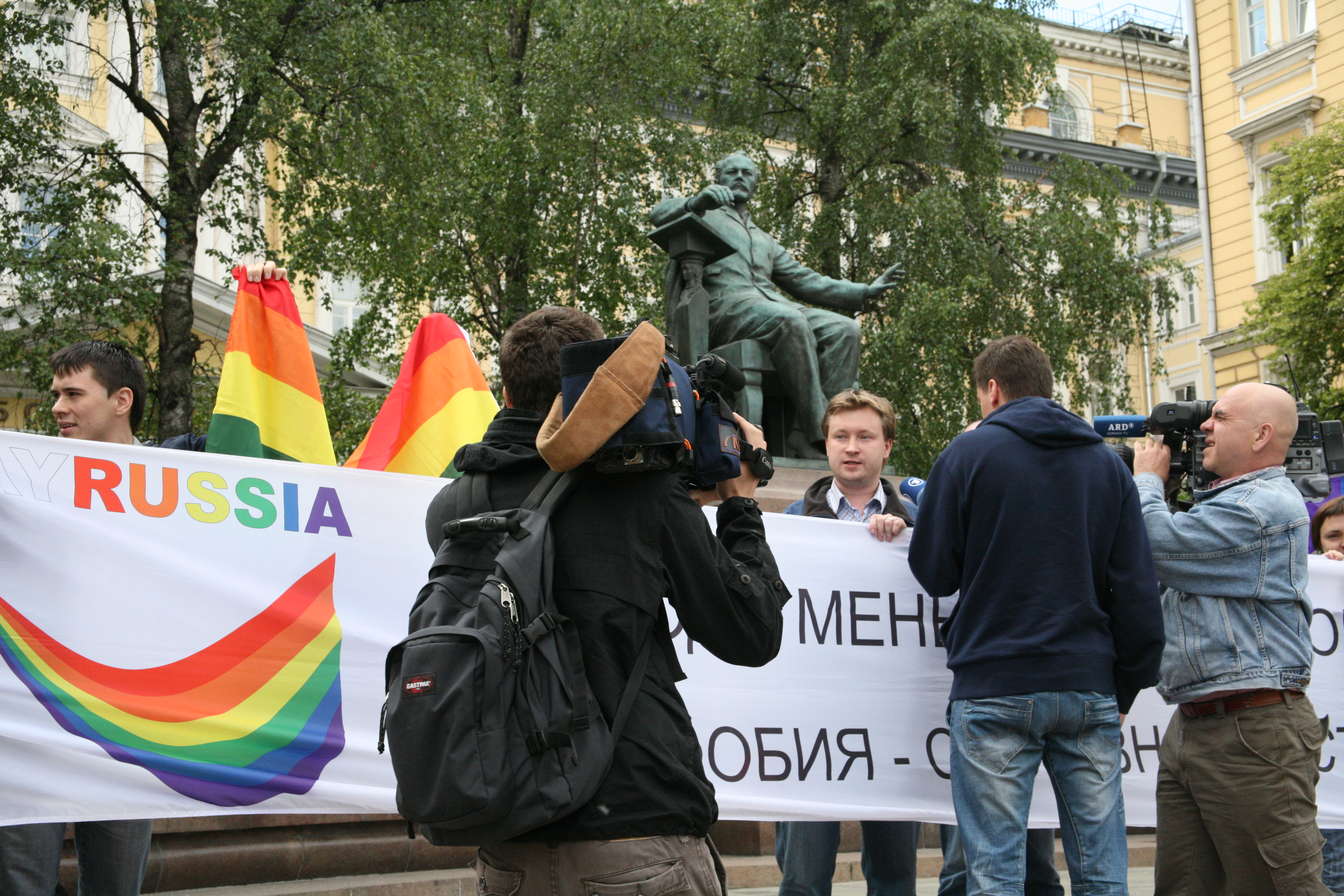 Photo of the Moscow Pride on June 1, 2009, showing one of the two events that were organized on that day in Moscow, particuarly the flashmob protest next to the Statue of Tchaikovsky, near the Conservatory of Classical Music. In the back, Nikolai Alekseev is interviewed by a TV station near the banner of the Moscow Pride that was carried.